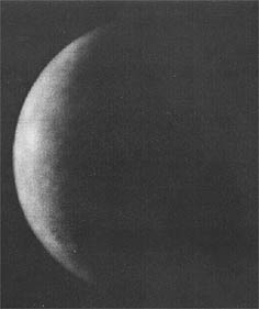 Mercury seen from 4.3 million km by the Mariner 10 probe. Slika:Distant view of Mercury from Mariner 10.jpg